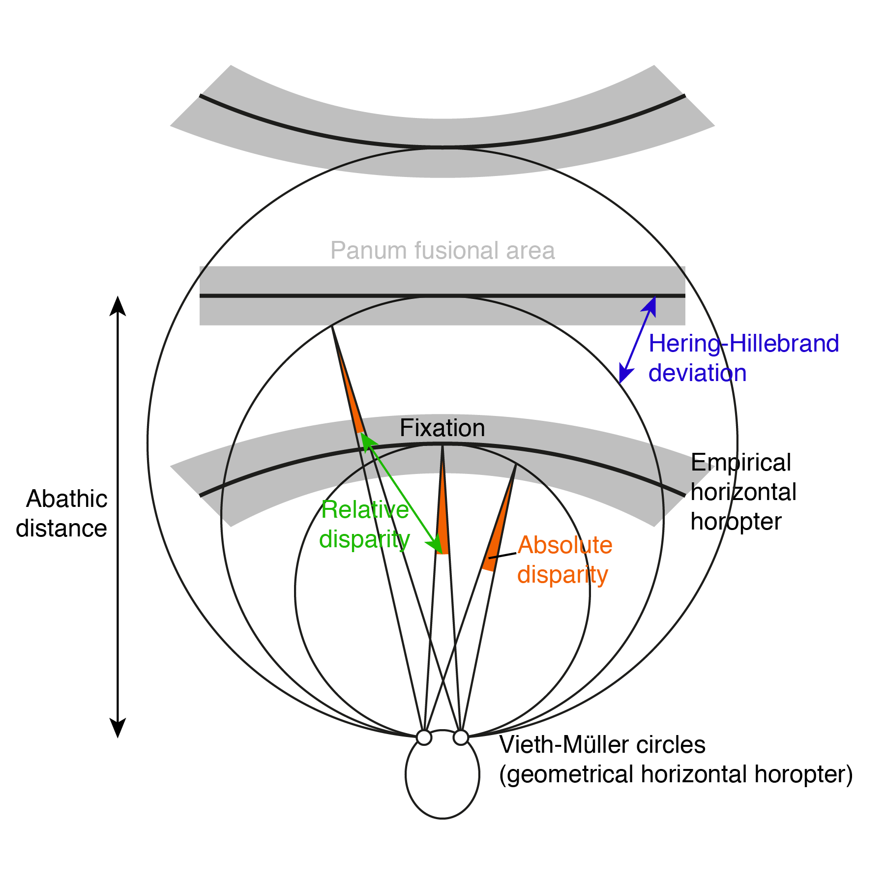 Depiction of the the theoretical and empirical horopters.